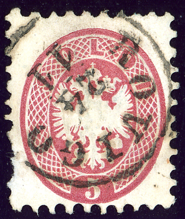 Stamp of Lombardy and Venetia, 5 soldi issue 1864, cancelled at ROVIGO (Mueller type RS-f). Michel N°21.